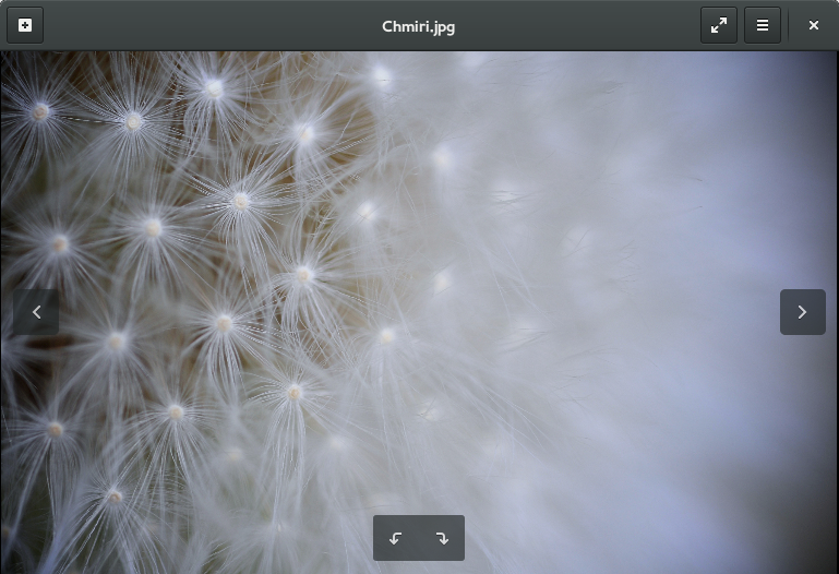 Screenshot of Eye of GNOME 3.16